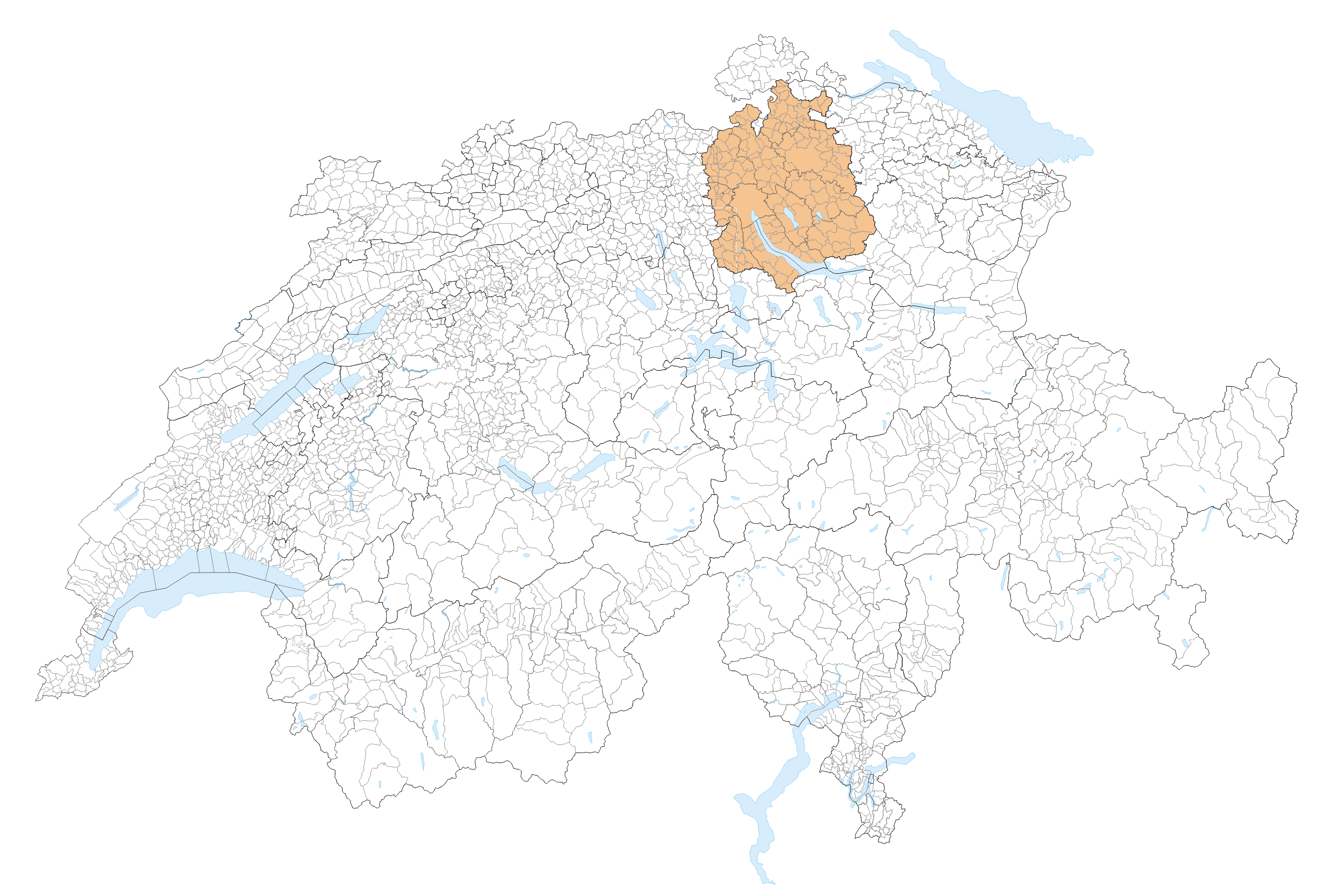 Kanton Zürich